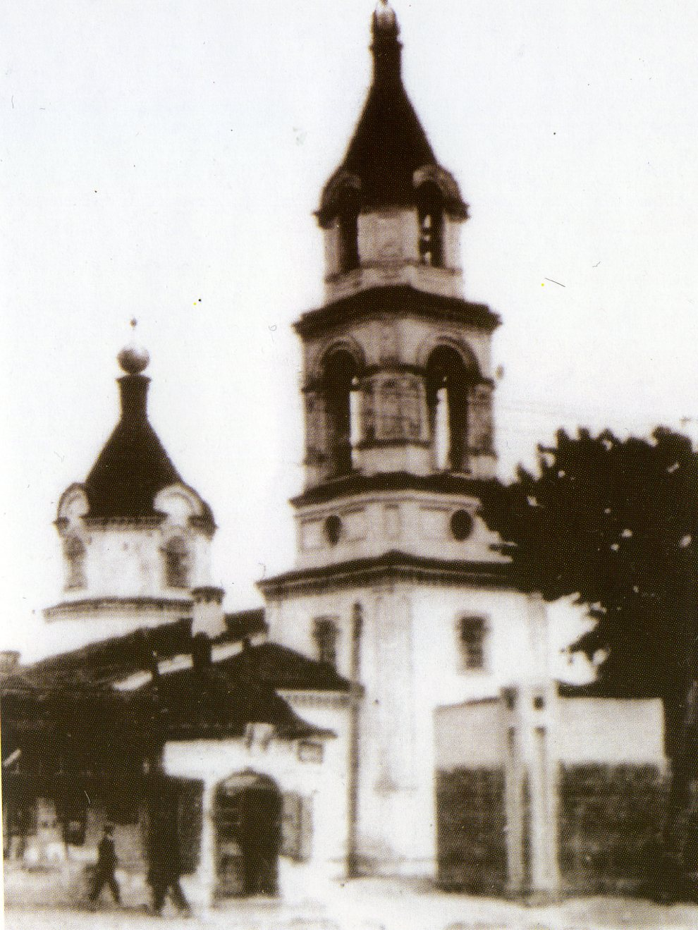 St. George church of Oryol